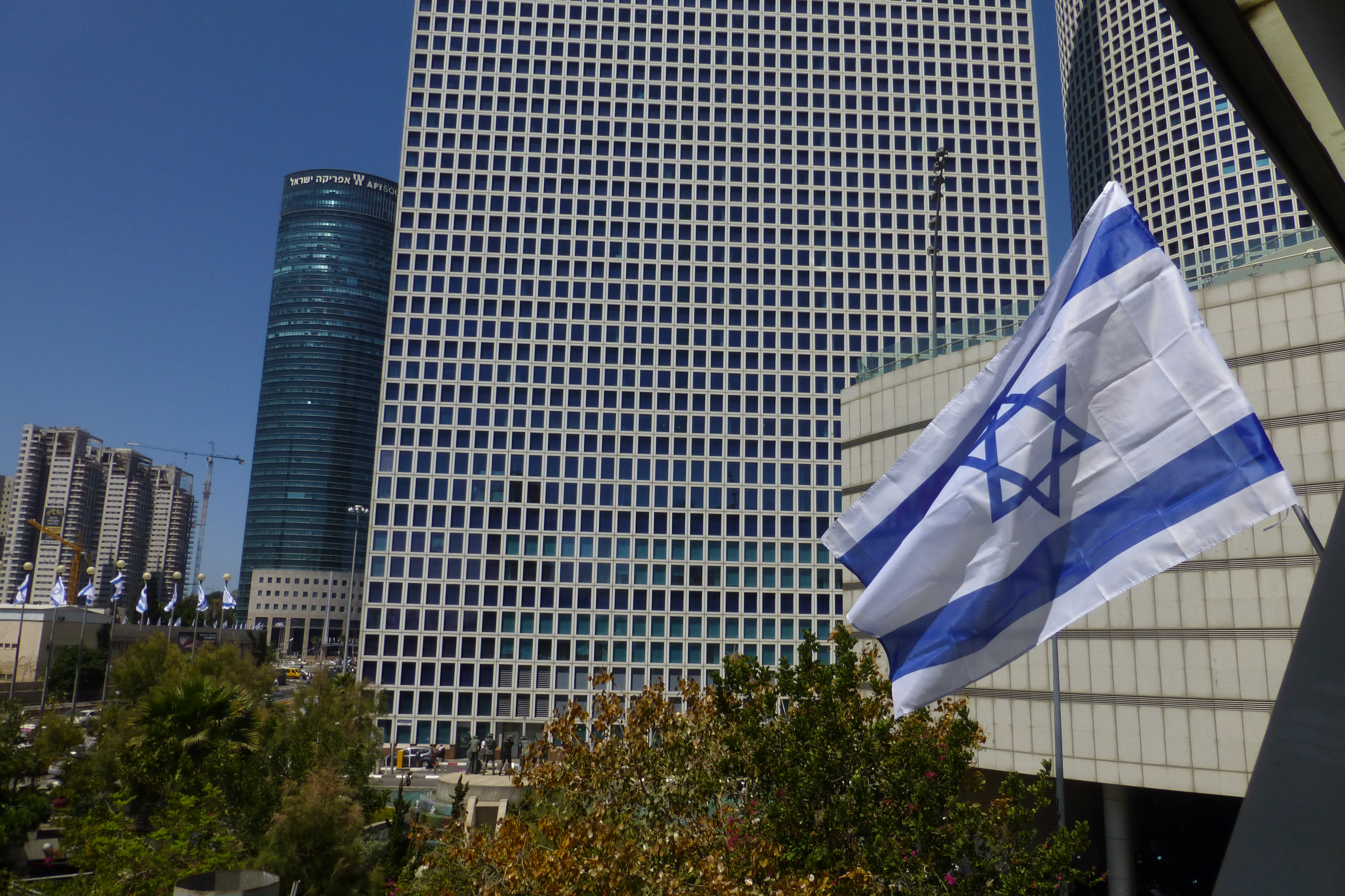 Azriely Towers